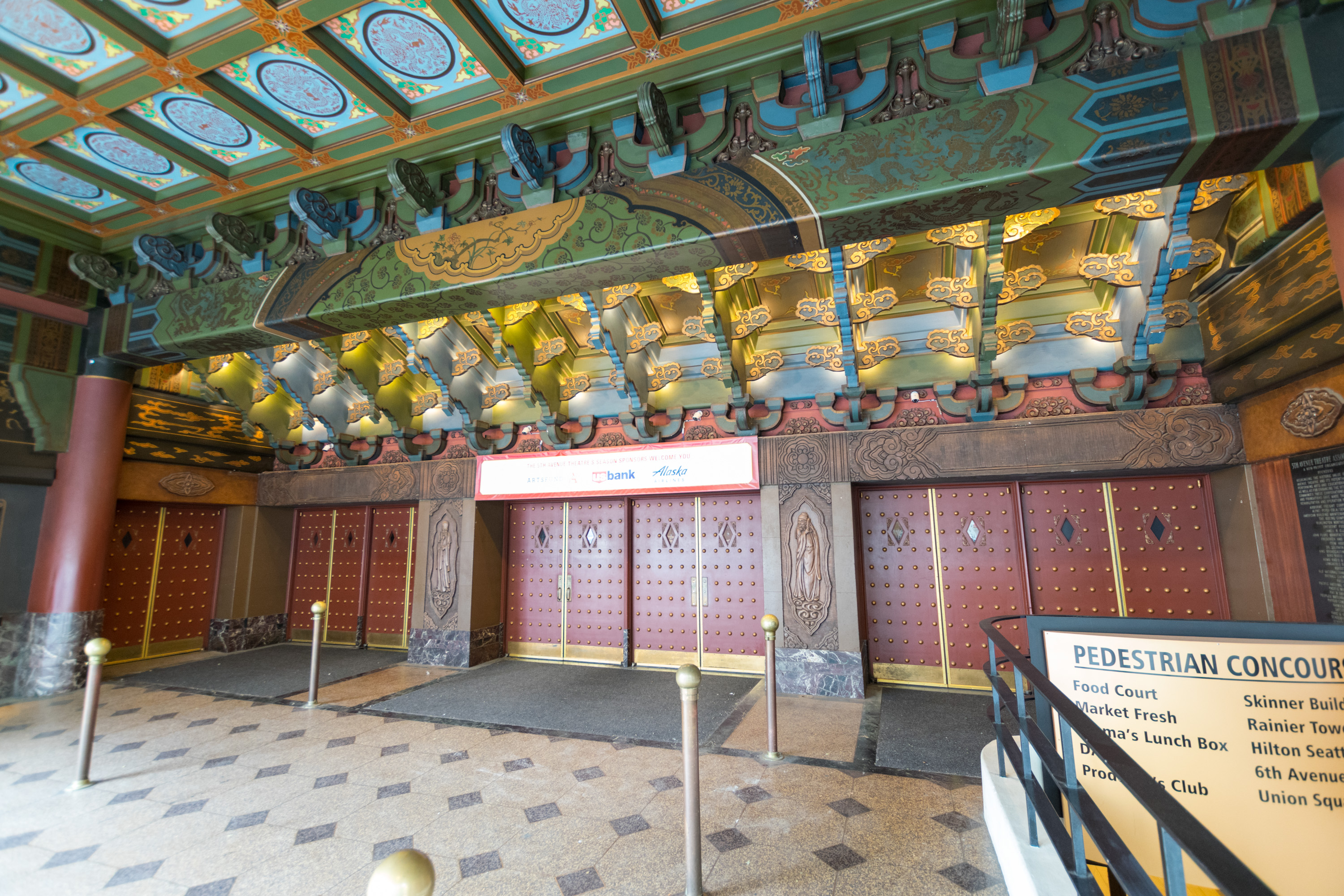 Entrance to the 5th Avenue Theatre in Seattle.